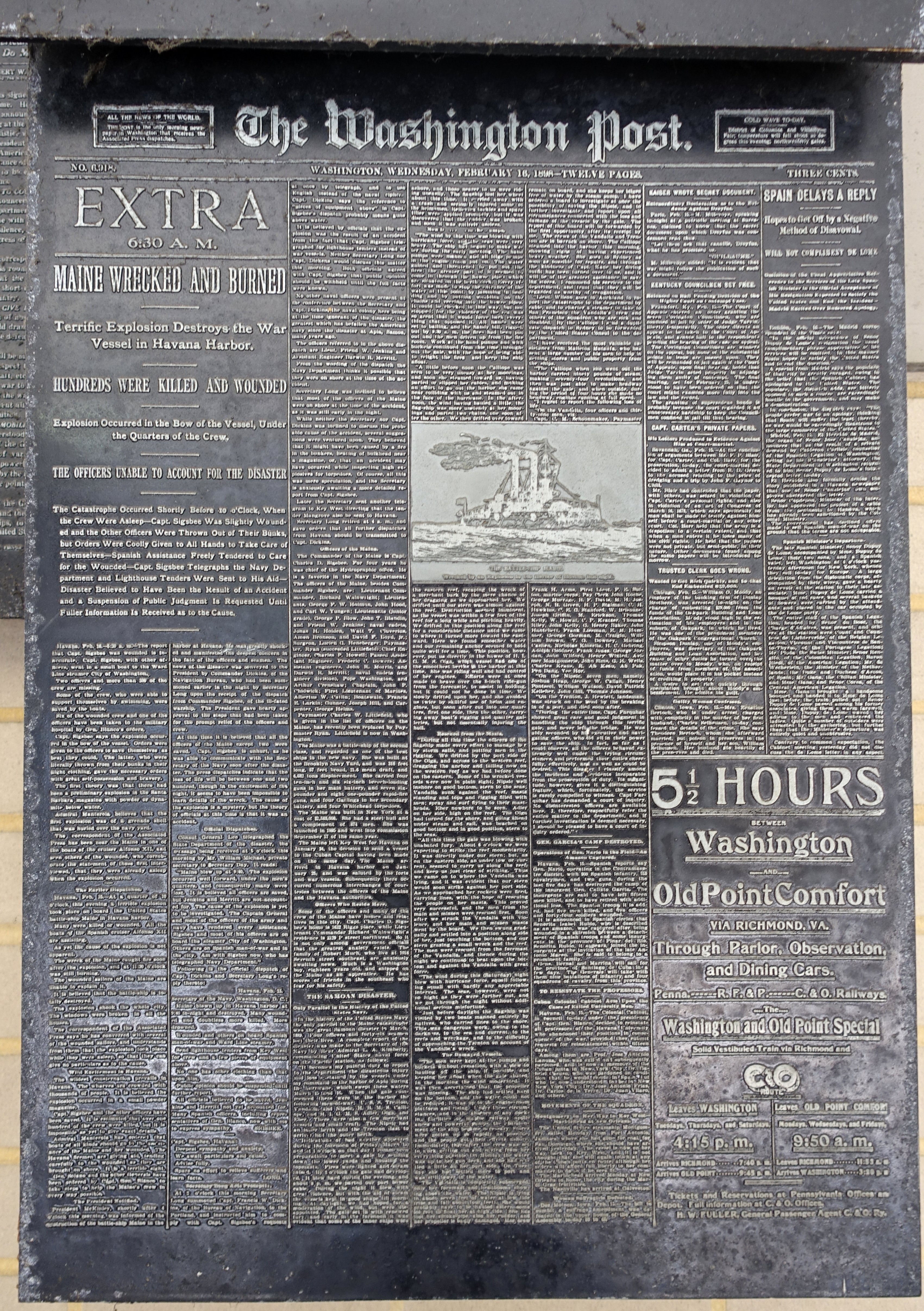 Linotype machine display outside the Washington Post entrance - Washington, DC, USA. This is a Mergenthaler Linotype Model 31, used at the newspaper from 1888 to 1980. Its design is old enough so that it is now in the public domain.